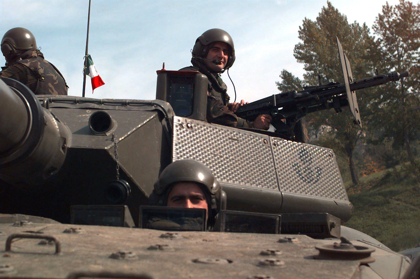 Close-up shot of three crewmembers each standing up through the two turret hatches and the driver's hatch of an Italian Army 19th Cavalry Regiment Consortium IVECO - OTO Melara Centauro B1 (8x8) Tank Destroyer. The Italian Army is in Bosnia during Operation Joint Endeavor, which is a peacekeeping effort by a multinational Implementation Force (IFOR), comprised of NATO and non-NATO military forces, deployed to Bosnia in support of the Dayton Peace Accords.